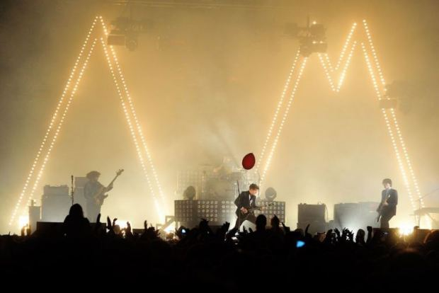 Arctic Monkeys performing on INmusic Festival 2013 - Day 1, Main Stage